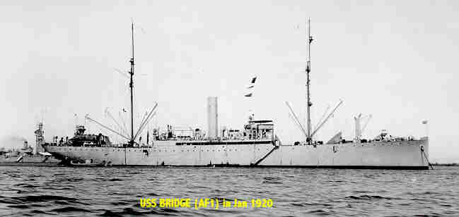 The U.S. Navy stores ship USS Bridge (Supply Ship No.1) anchored in Guantanamo Bay, Cuba, in January 1920. She was redesignated "provisions stores ship" (AF-1) on 17 July 1920.